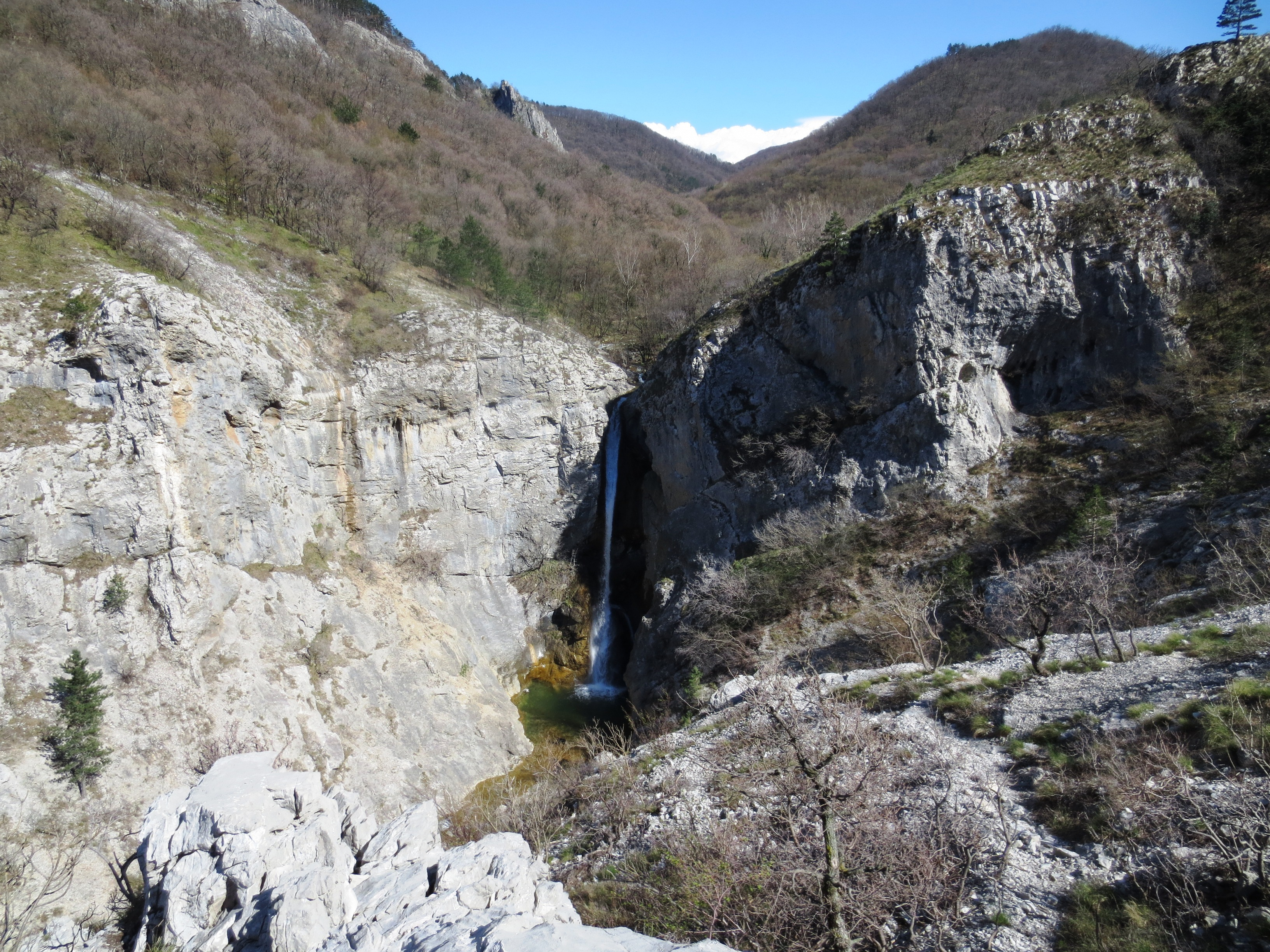 Waterfall - Val Rosandra / Dolina Glinščice